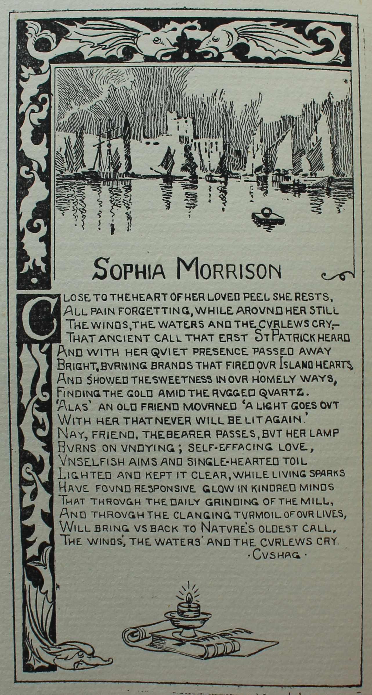 A poem by Cushag (Josephine Kermode), commemorating her friend, Sophia Morrison, who died January 14, 1917. This poem is as it appeared in the edition of the May edition of the journal of 'Mannin', formerly edited by Sophia Morrison. The poem is here set and illustrated by Archibald Knox.